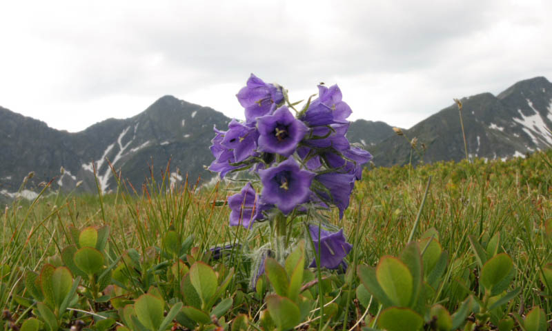 Roháče (Western Tatras, Slovakia), mountain Plačlivé in background